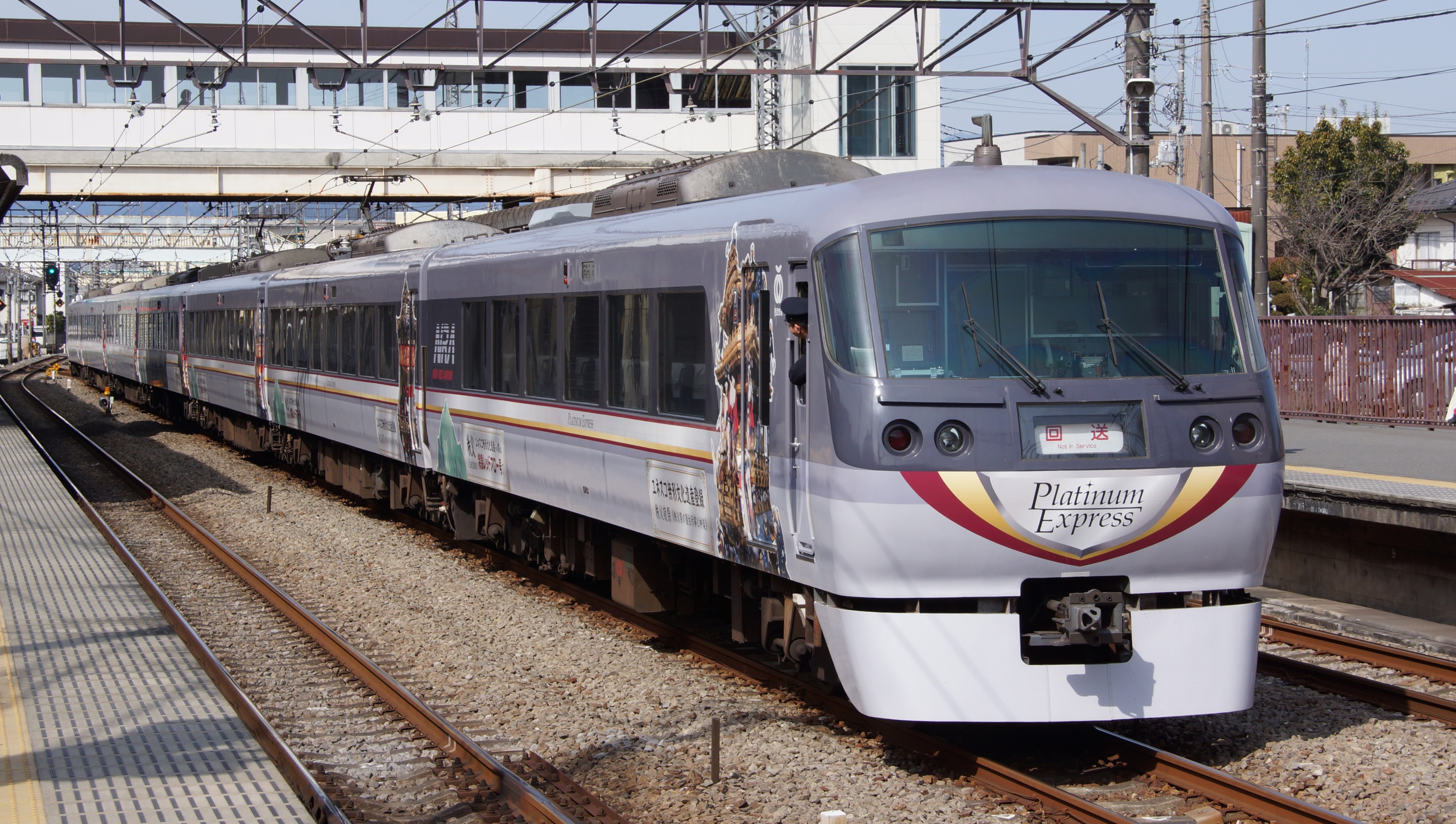 Seibu 10000 series EMU set 10103 in special "Platinum Express" (Chichibu Version) vinyl wrapping livery at Bushi Station on a Seibu Ikebukuro Line empty stock working to Hanno